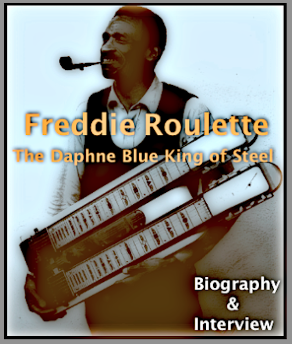 Freddie Roulette, the lap steel blues legend - a biography. A photo I took and release the rights to for people to enjoy.